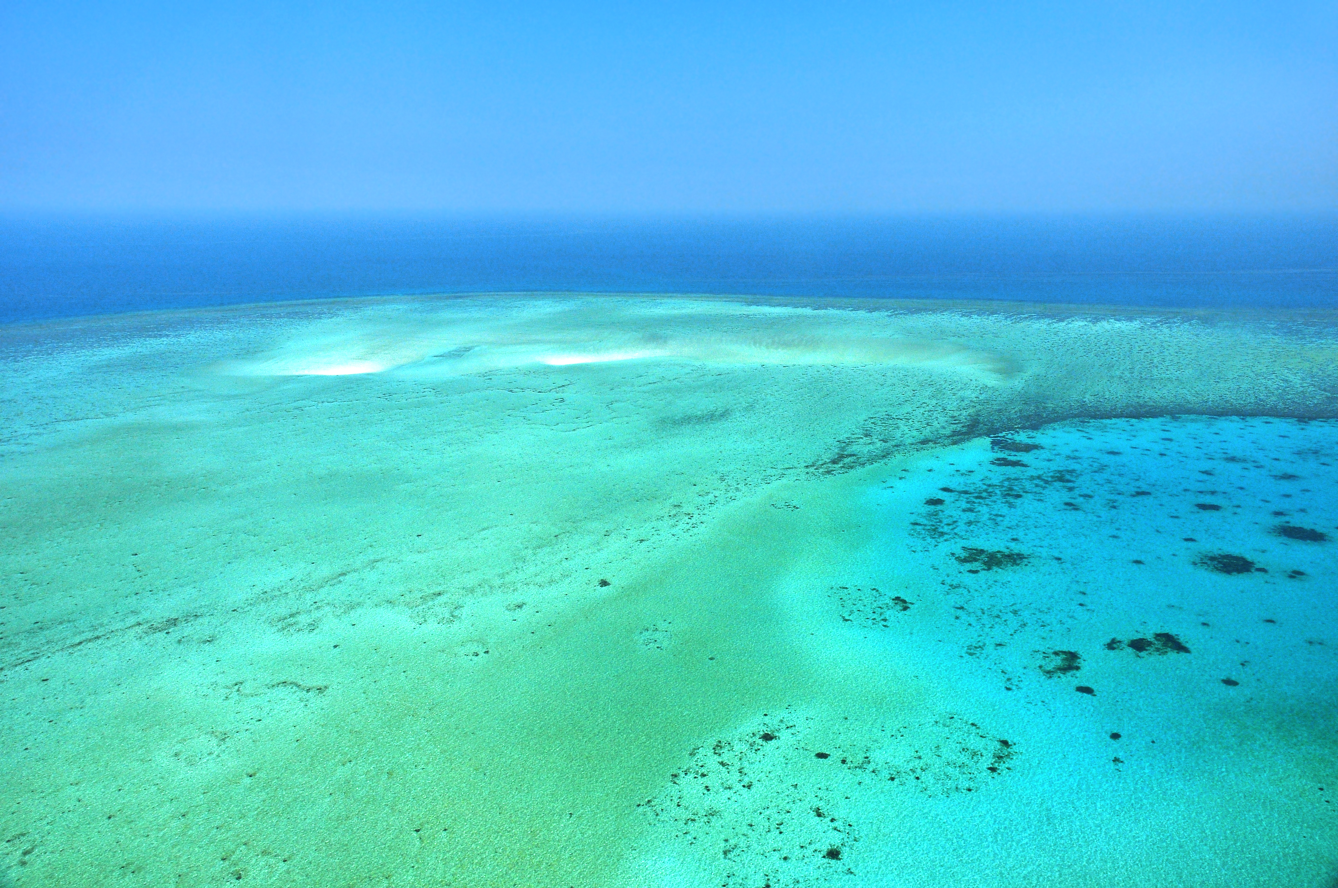 Aerial view of the Great Barrier Reef, nearby the Capricorn Group, Queensland, Australia